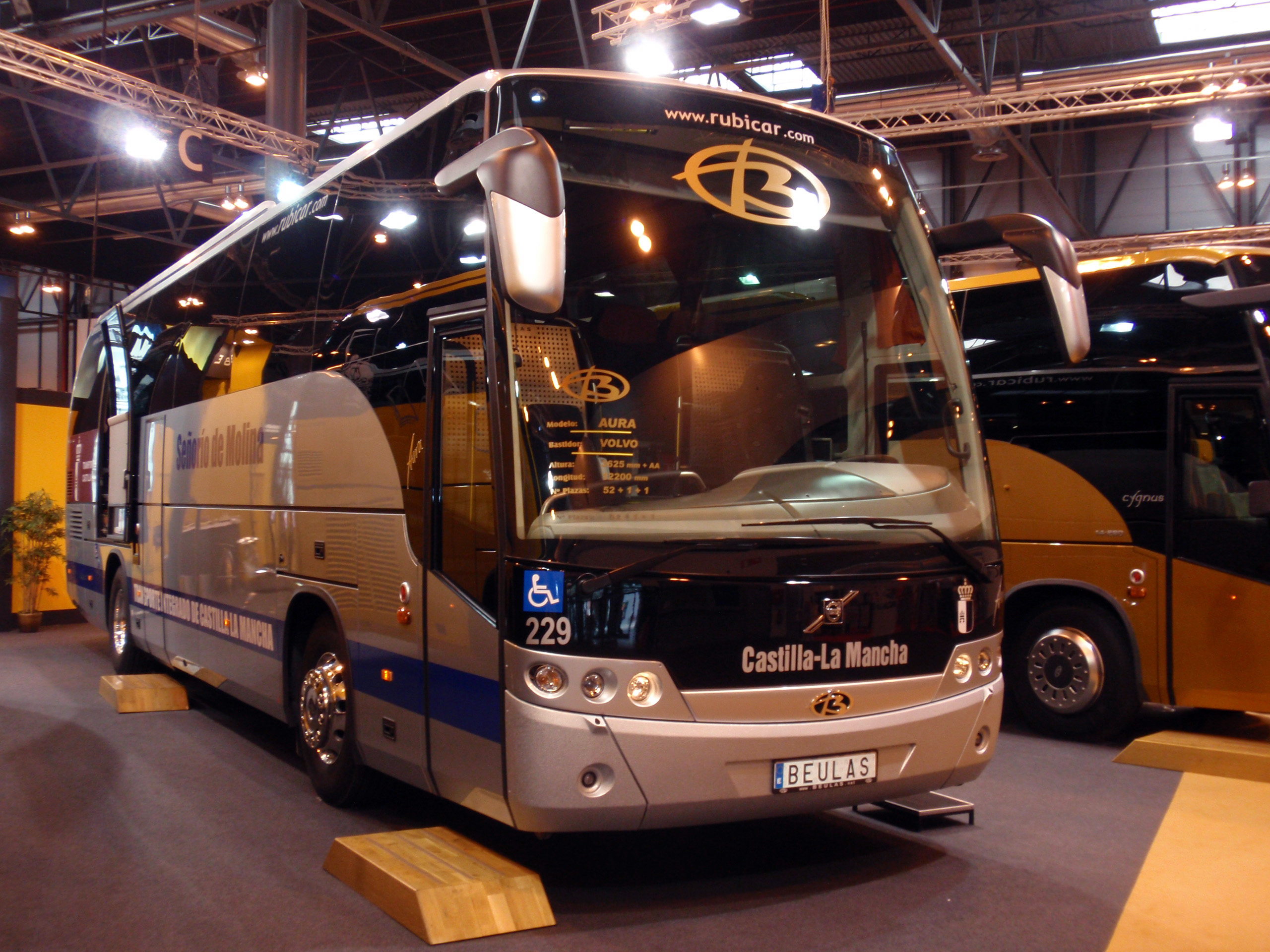 Beulas Aura at the 2008 FIAA (International Bus and Coach Fair) in Madrid